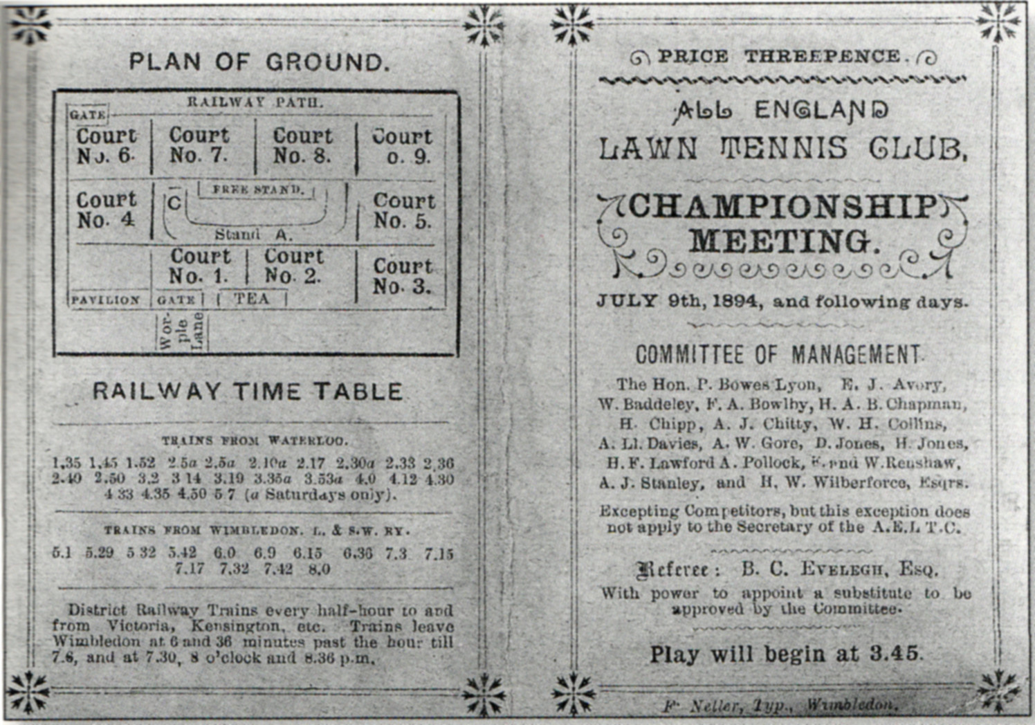 Wimbledon 1894, cover program (?)